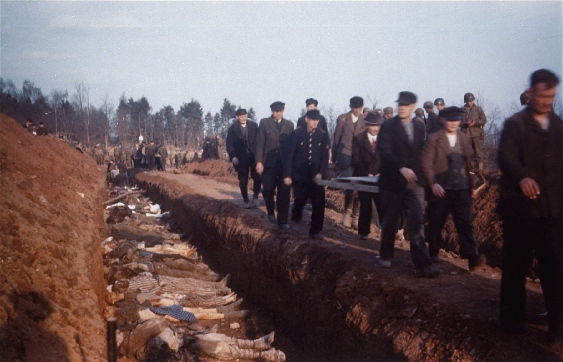 Supervised by American soldiers, German civilians from the town of Nordhausen bury the corpses of prisoners found at the Mittelbau-Dora concentration camp in mass graves. Rare colour photograph taken in 1945.